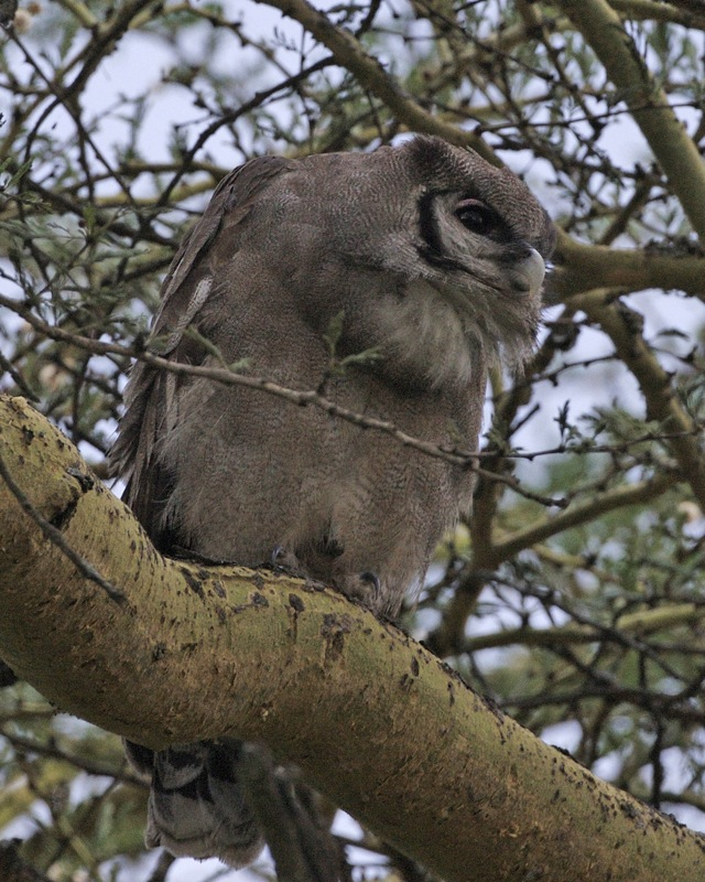 Verreaux's Eagle-Owl Bubo lacteus Nakuru, Kenya 30th. August 2008 690V2641